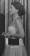 Esther Bence-actriz